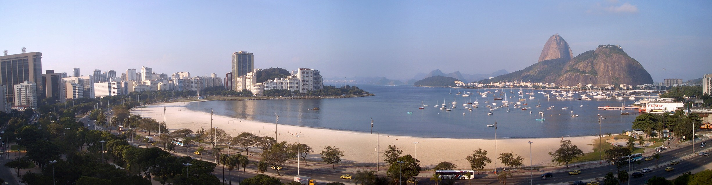 Panoramic view of Botafogo Bay and beach, and Pão de Açúcar (Sugar Loaf mountain) — in Rio de Janeiro. Botafogo Bay is a protected side-bay of Guanabara Bay — in southeast Brazil.